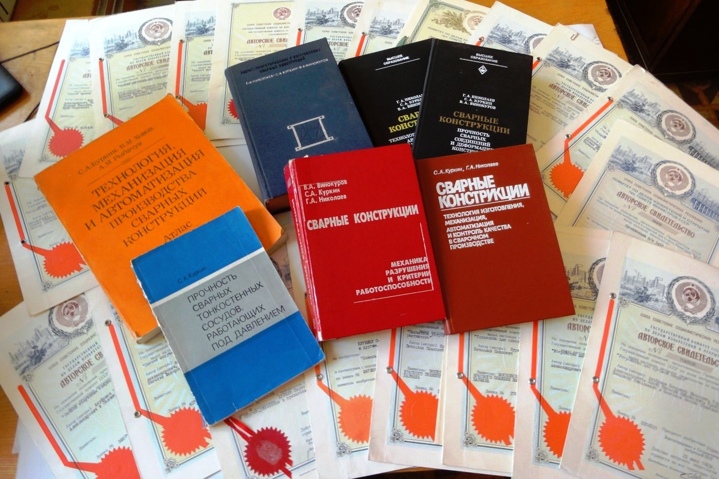 Publication